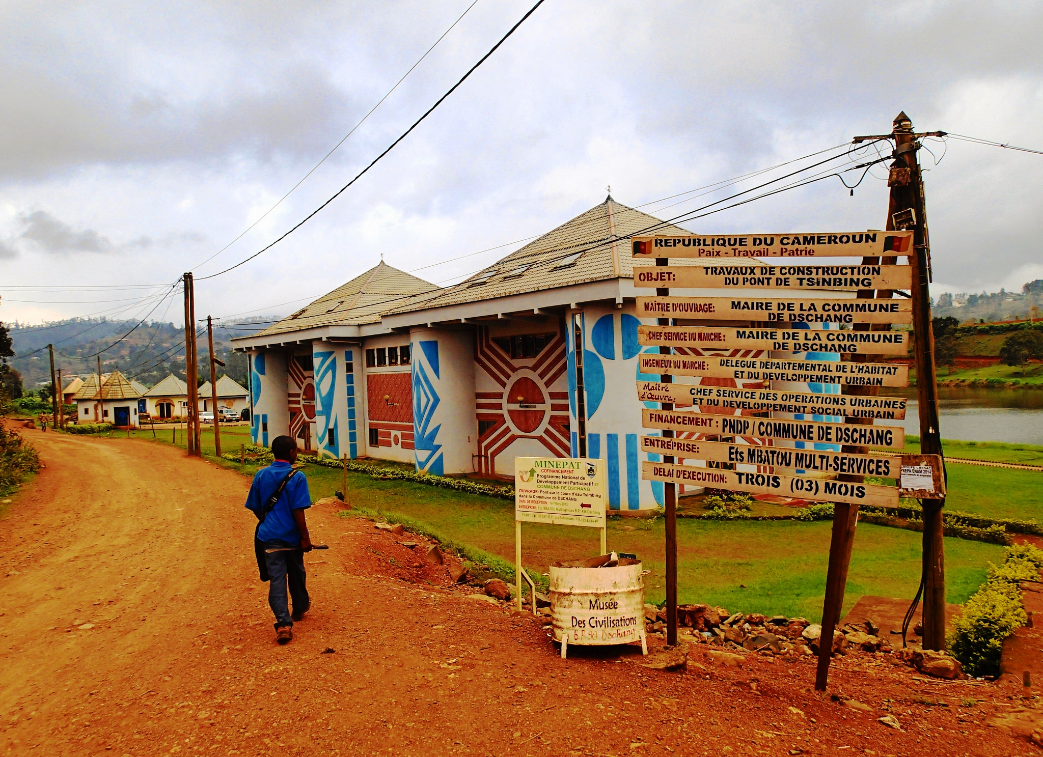 Musee des civilisations, Dschang, Cameroon